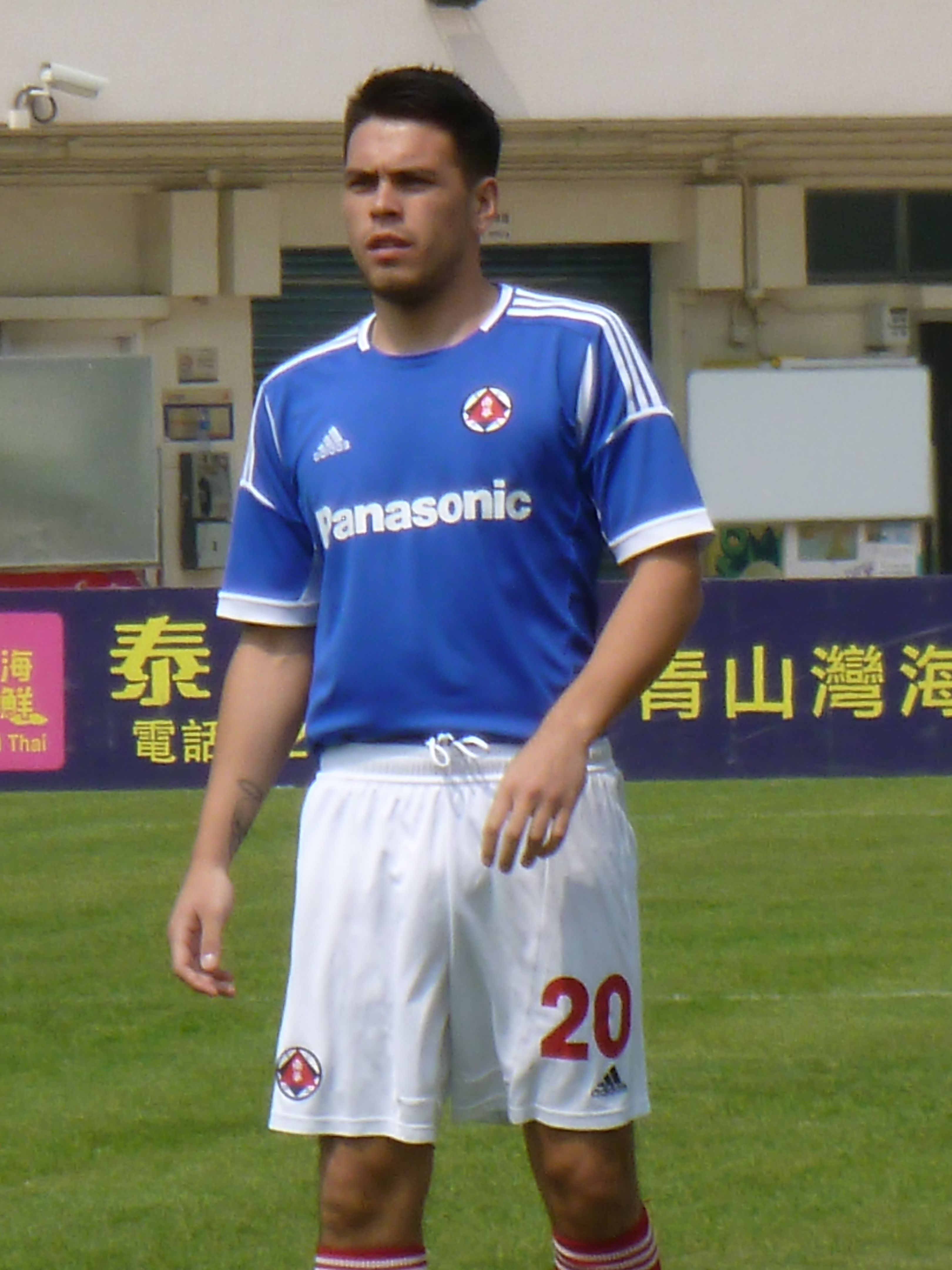 Tse Chi Keung Adam (16 Mar 2013, Hong Kong First Division League, Tuen Mun vs South China, Tuen Mun Tang Shiu Kin Sports Ground) 中文（香港）: 謝志強 (16 Mar 2013, 香港甲組足球聯賽, 屯門 vs 南華, 屯門鄧肇堅運動場)